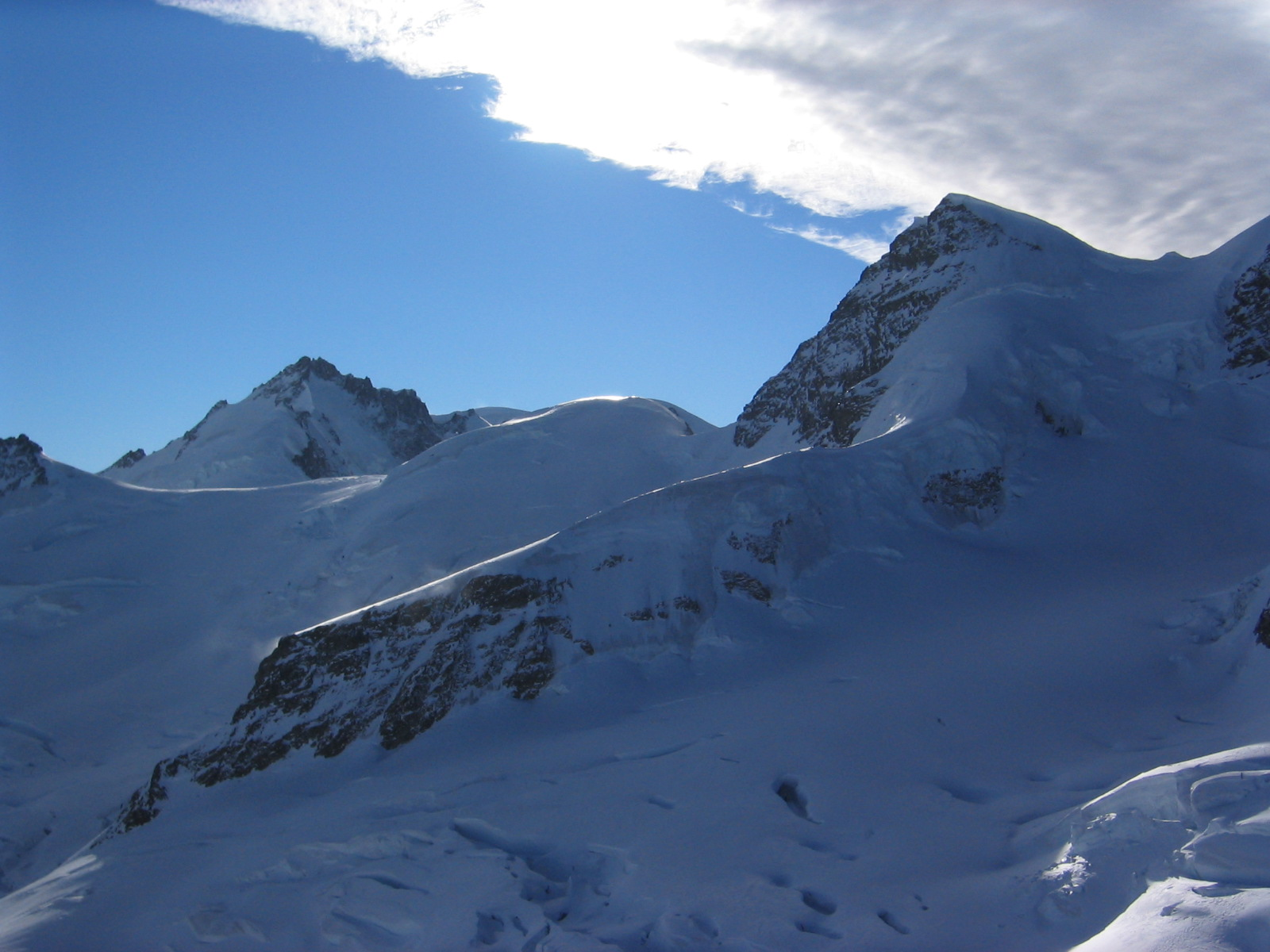 Jungfraujoch